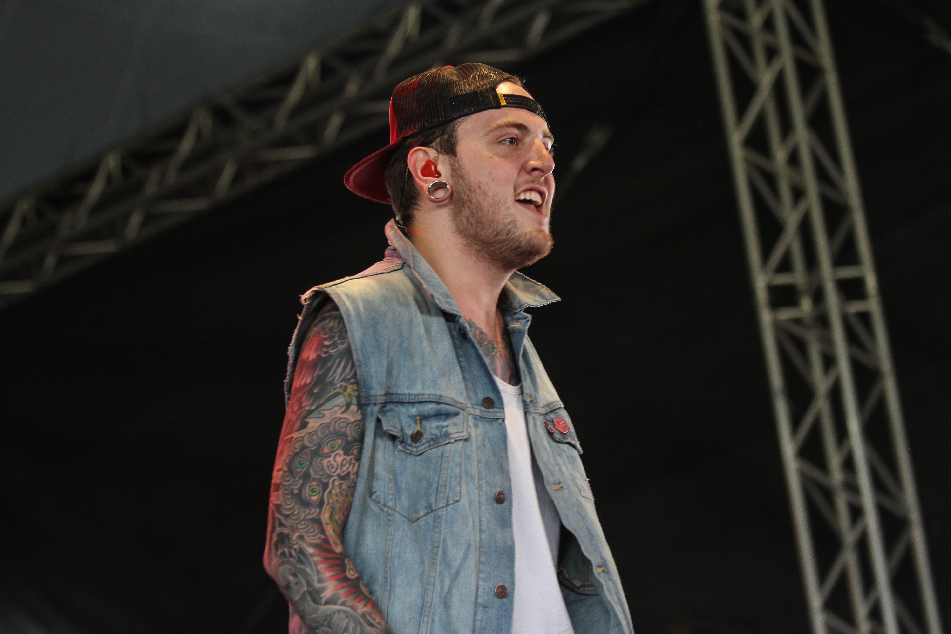 Festivalsommer This photo was created with the support of donations to Wikimedia Deutschland in the context of the CPB project "Festival Summer".